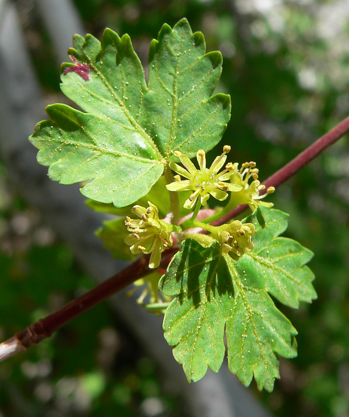 Acer glabrum var. diffusum alongside the upper Mary Jane Falls trail, Kyle Canyon, Spring Mountains, southern Nevada (elev. about 2600 m)